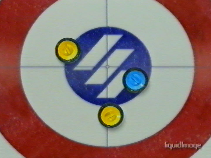 Still frame from BBC Scotland 'curling' ident from the nineties